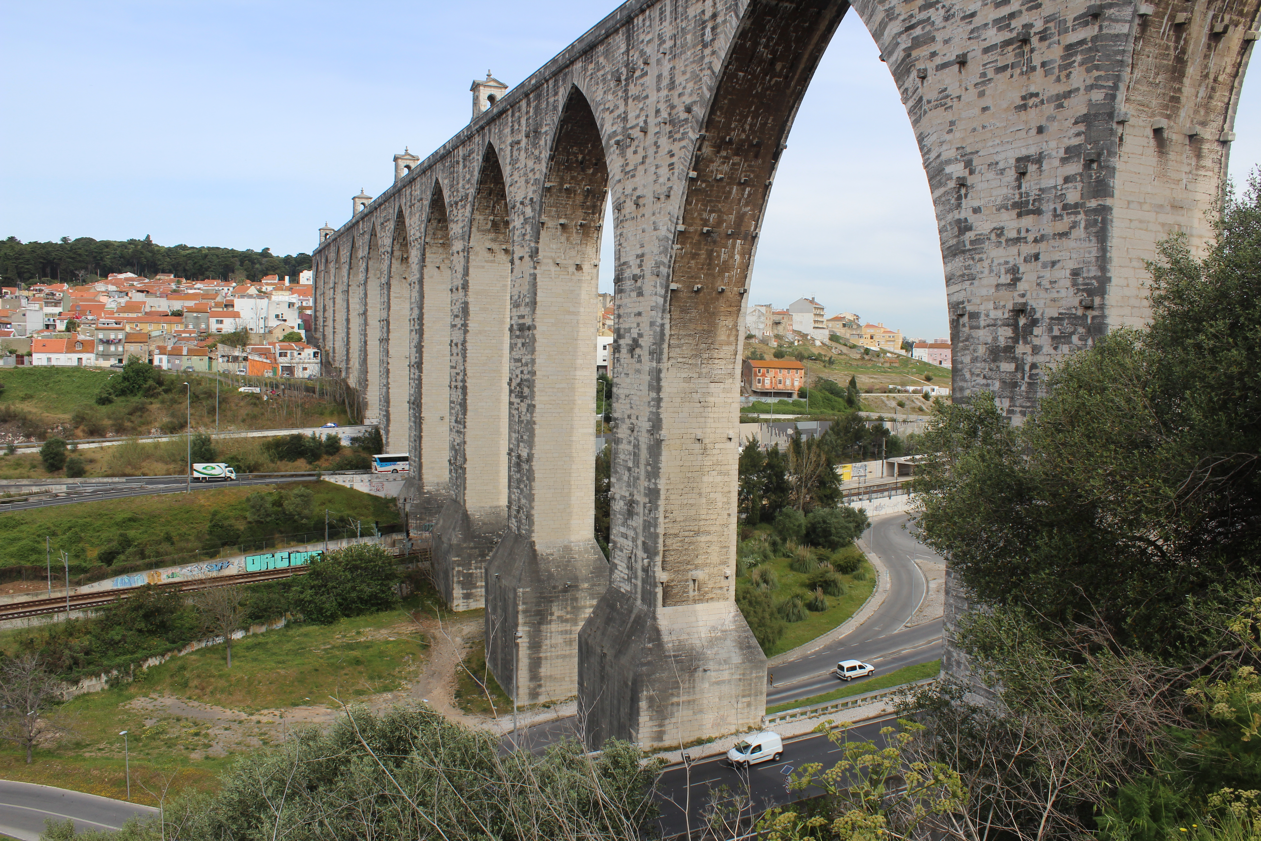 South Western aspect of the Aqueduto das Águas Livres (Águas Livres Aqueduct) showing the railway line and the (Lisbon ring road (Auto-estrada do Norte (A1) (part of the E01) passing under it. The drop from the top of the aquaduct to the railway line is about 60 metres.